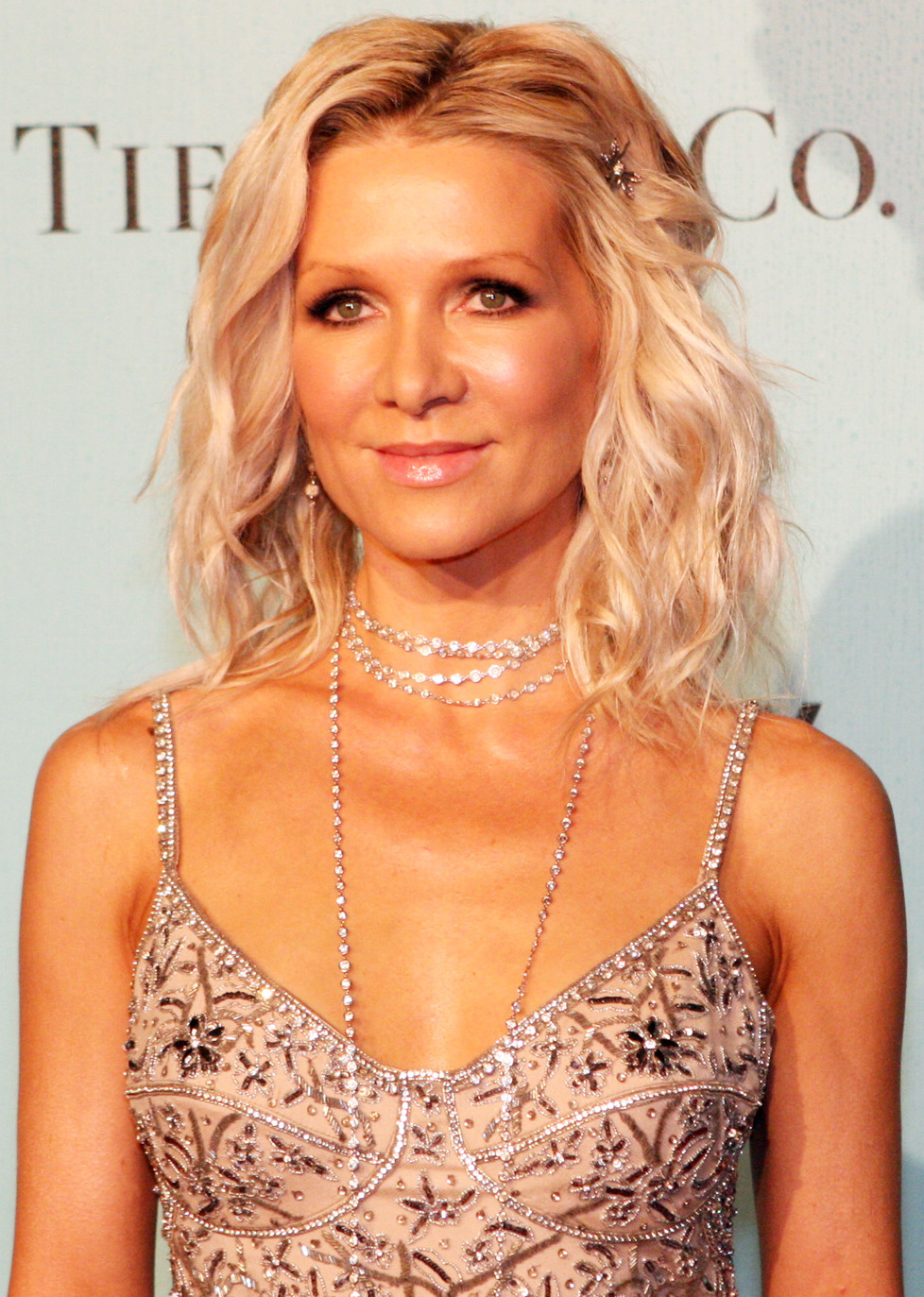 Danielle Spencer at the The Great Gatsby Premiere Sydney Australia 2013.